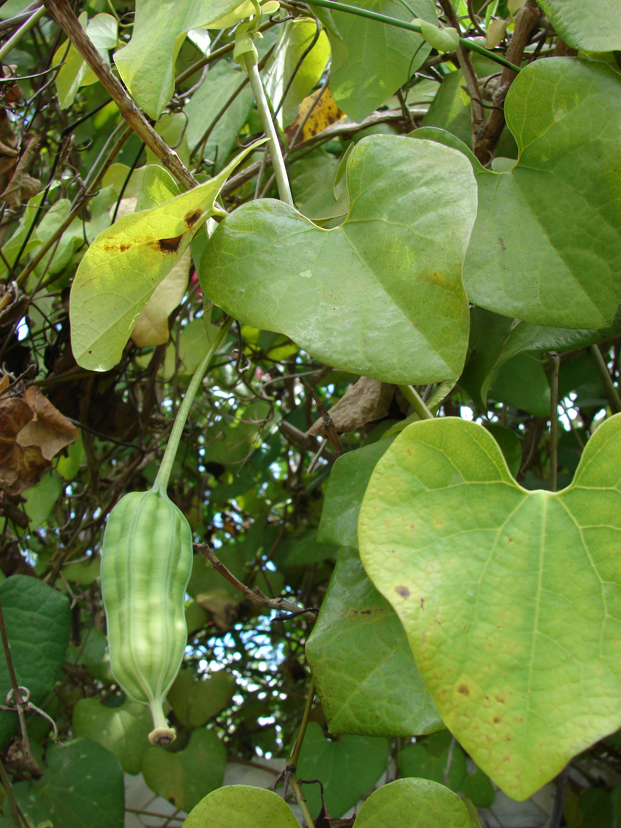 Aristolochia littoralis (leaves and immature fruit). Location: Maui, Enchanting Gardens of Kula